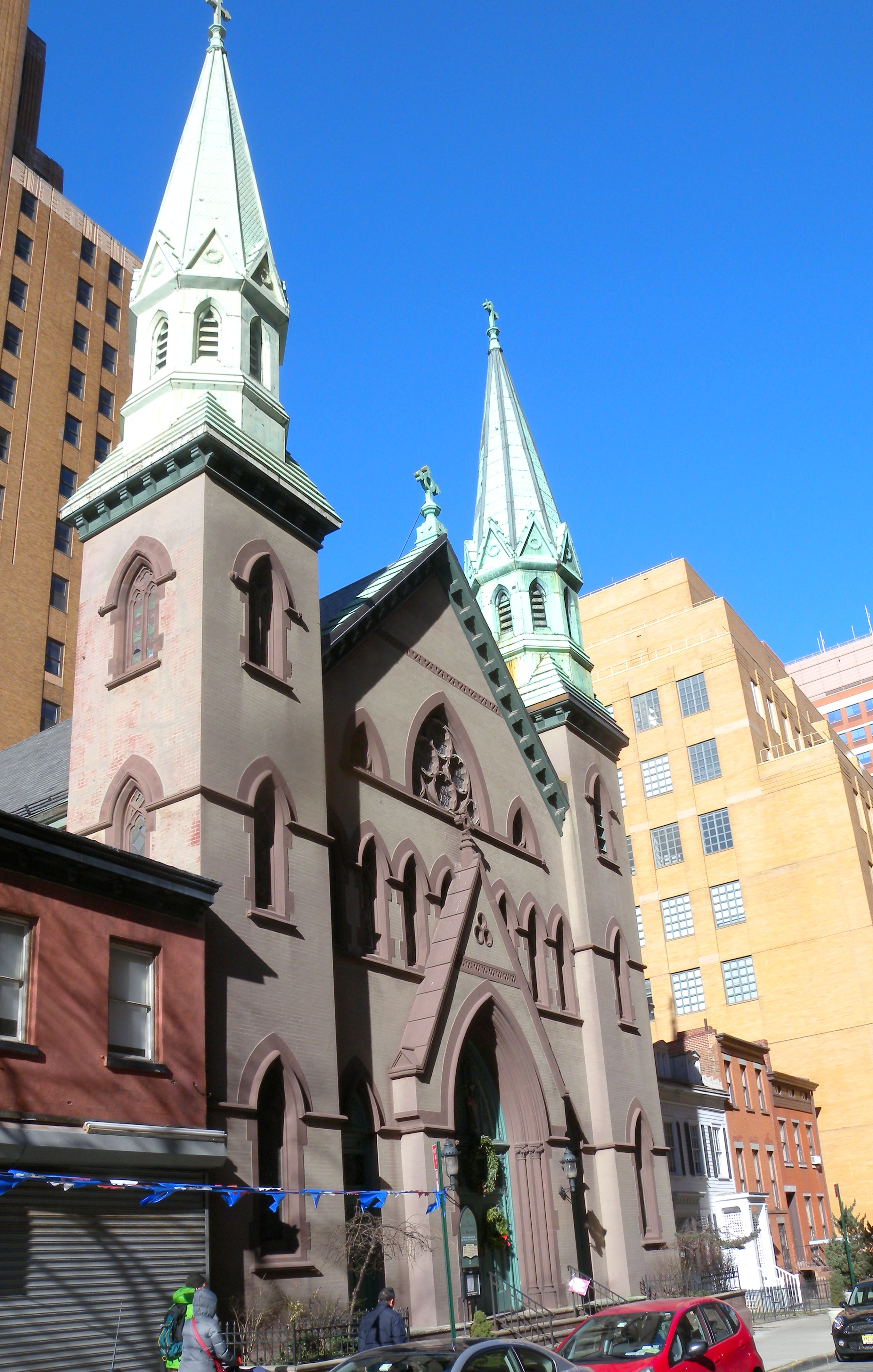 Looking northwest across Duffield at St Boniface with better sun than File:Boniface RCC 190 Duffield jeh.jpg.